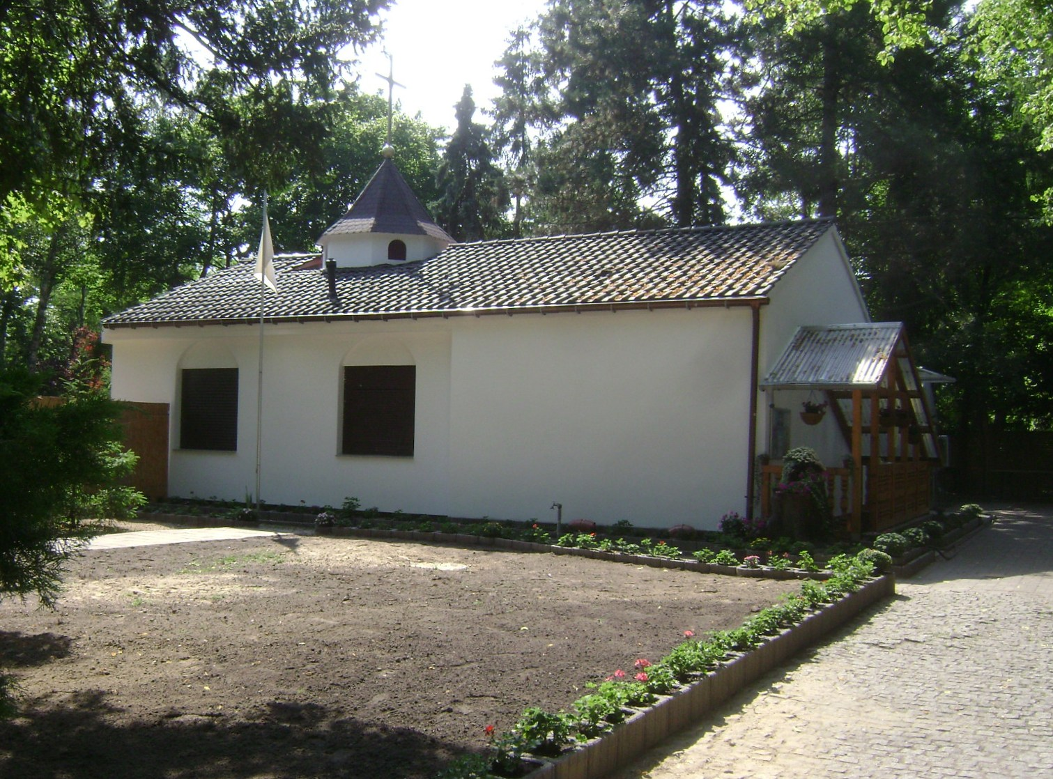 Romanian Orthodox Church of the Archangels Michael and Gabriel in 14052 Berlin-Westend, Heerstr. 63